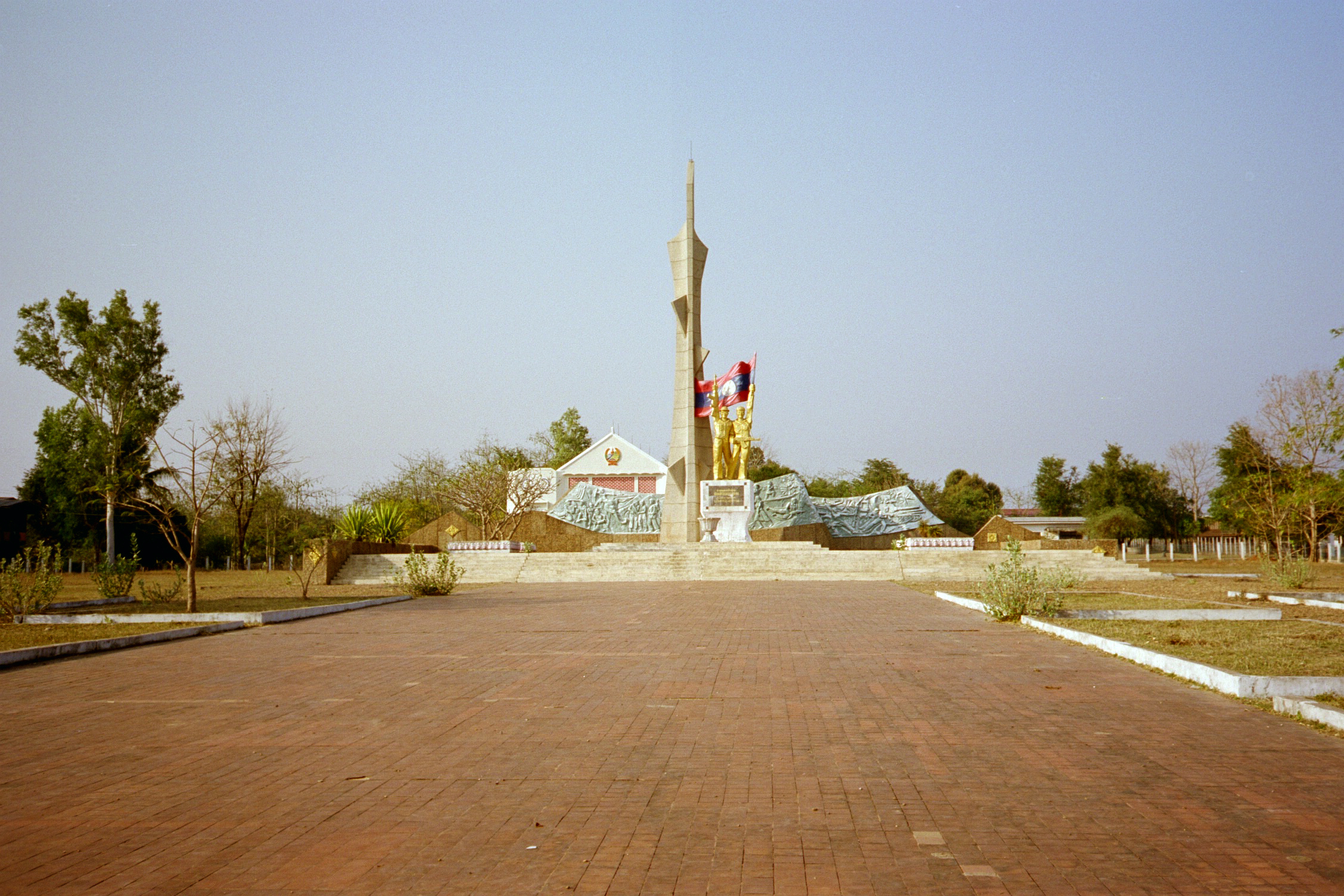 Lao-Vietnam friendship monument from Muang Phin in south central Laos, a testament to communist cooperation during the second Indochina war.